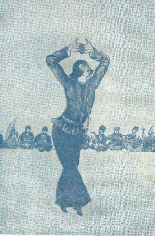 Male dancer